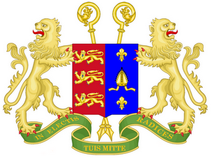 (Arms with supporters) of Chavagnes International College